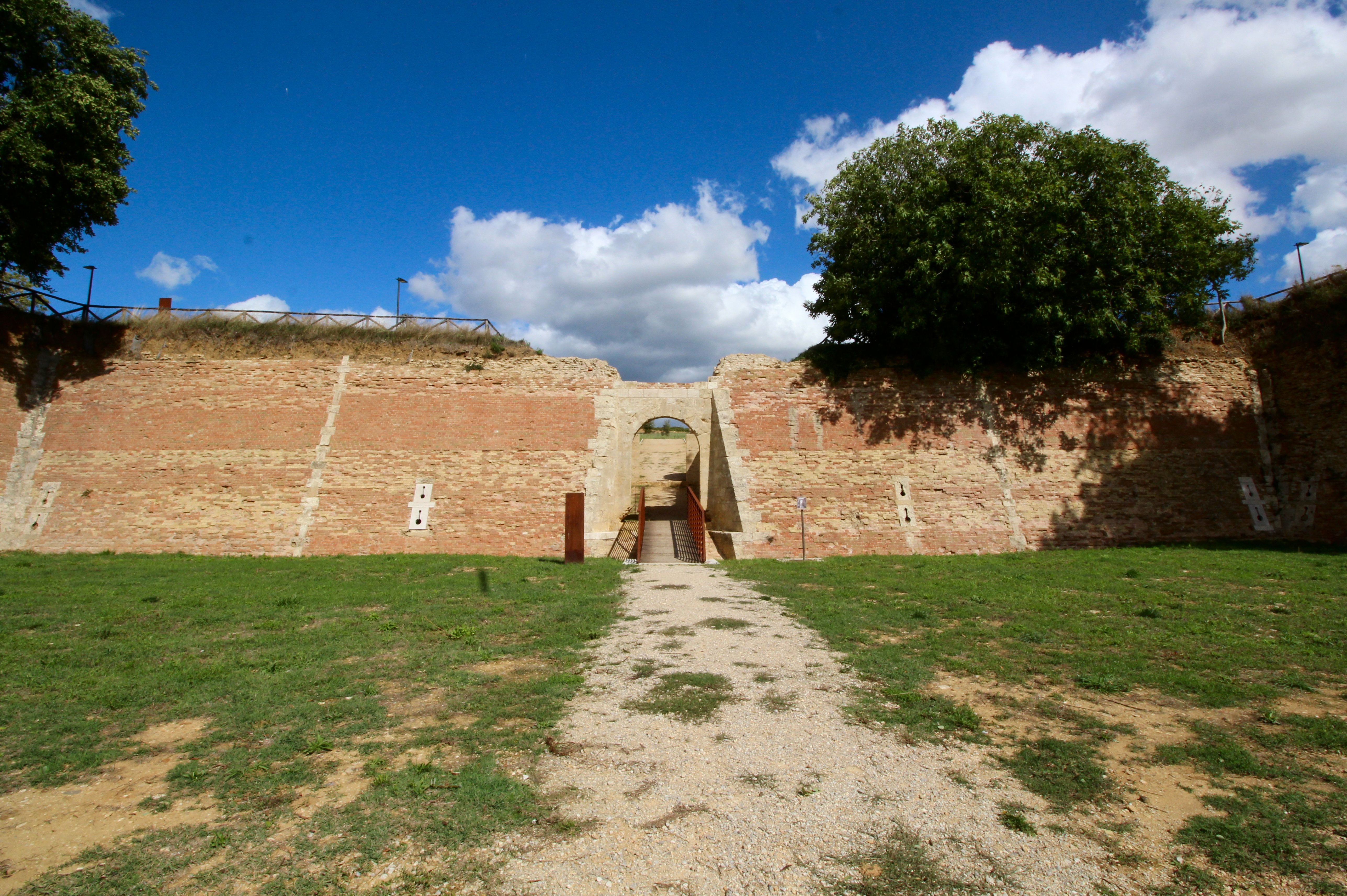 Castle Gate Porta della Fonte, Fortress Fortezza medicea di Poggio Imperiale, Poggibonsi, Province of Siena, Tuscany, Italy